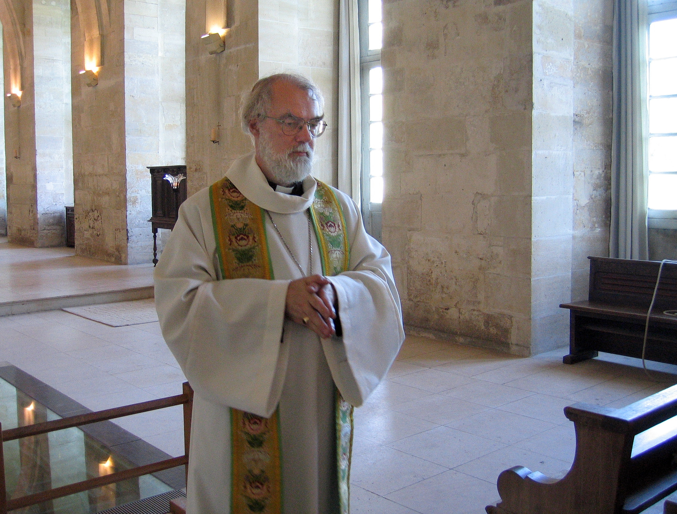 His Grace Dr Rowan Williams, Archibishop of Canterbury, visiting Abbaye du Bec in le Bec-Hellouin on the 26th & 27th of may 2005.